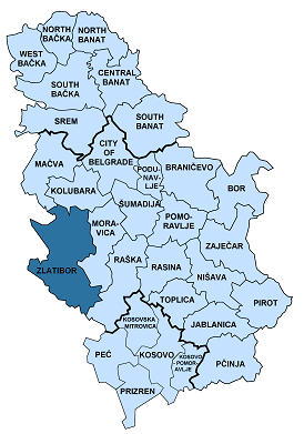 Map of disricts of Serbia